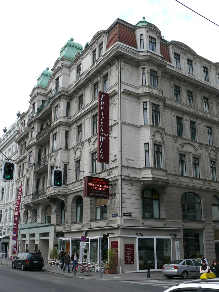 Theater an der Wien